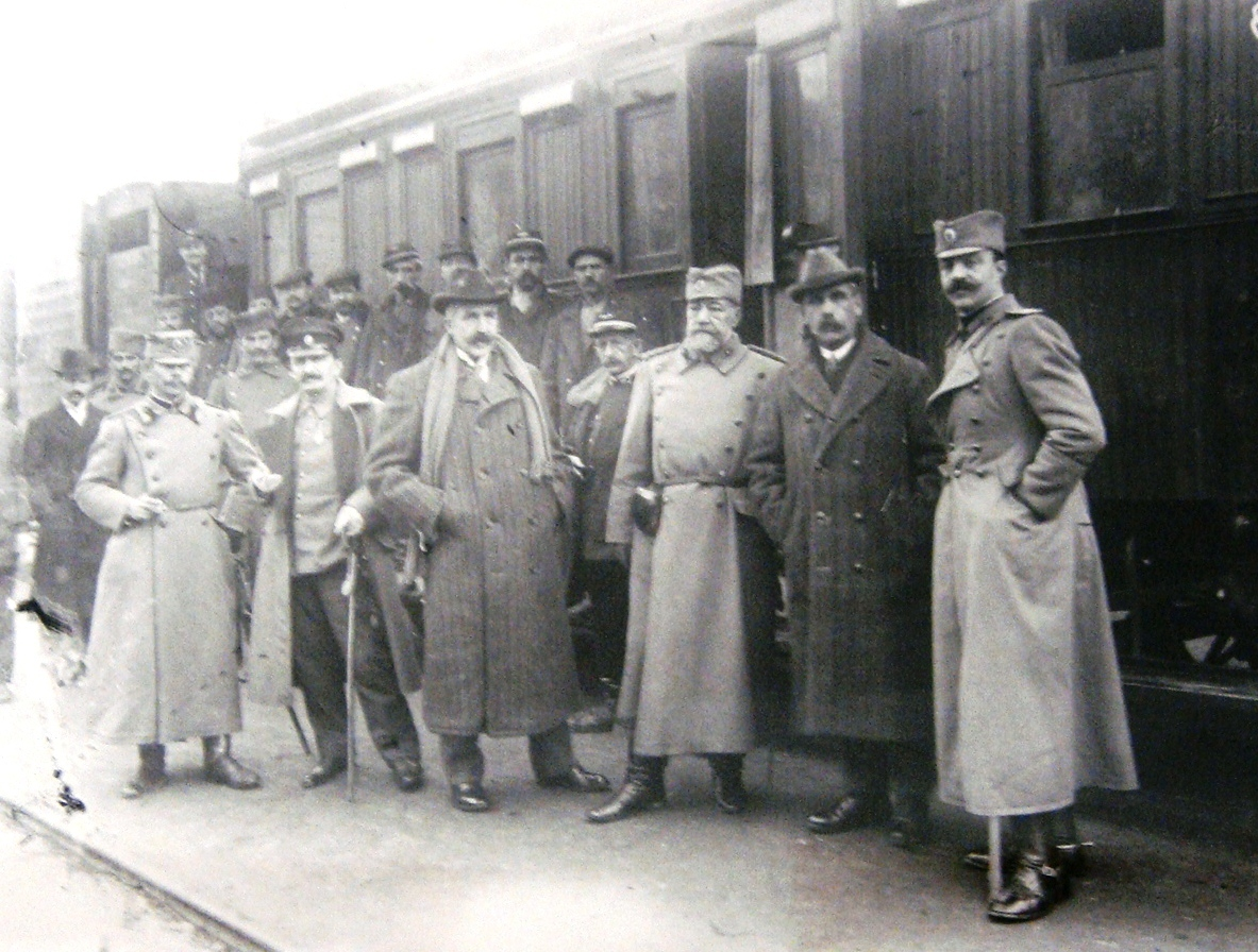 Branislav Nusic, second from left, Kushakovikj, a minister in Spain (first) and General Ilija Gojkovic recorded at the railway station in Bitola, 1912 This media file is produced by Wikipedian in Residence in Category:Wikipedian in Residence at DARM in 2016.